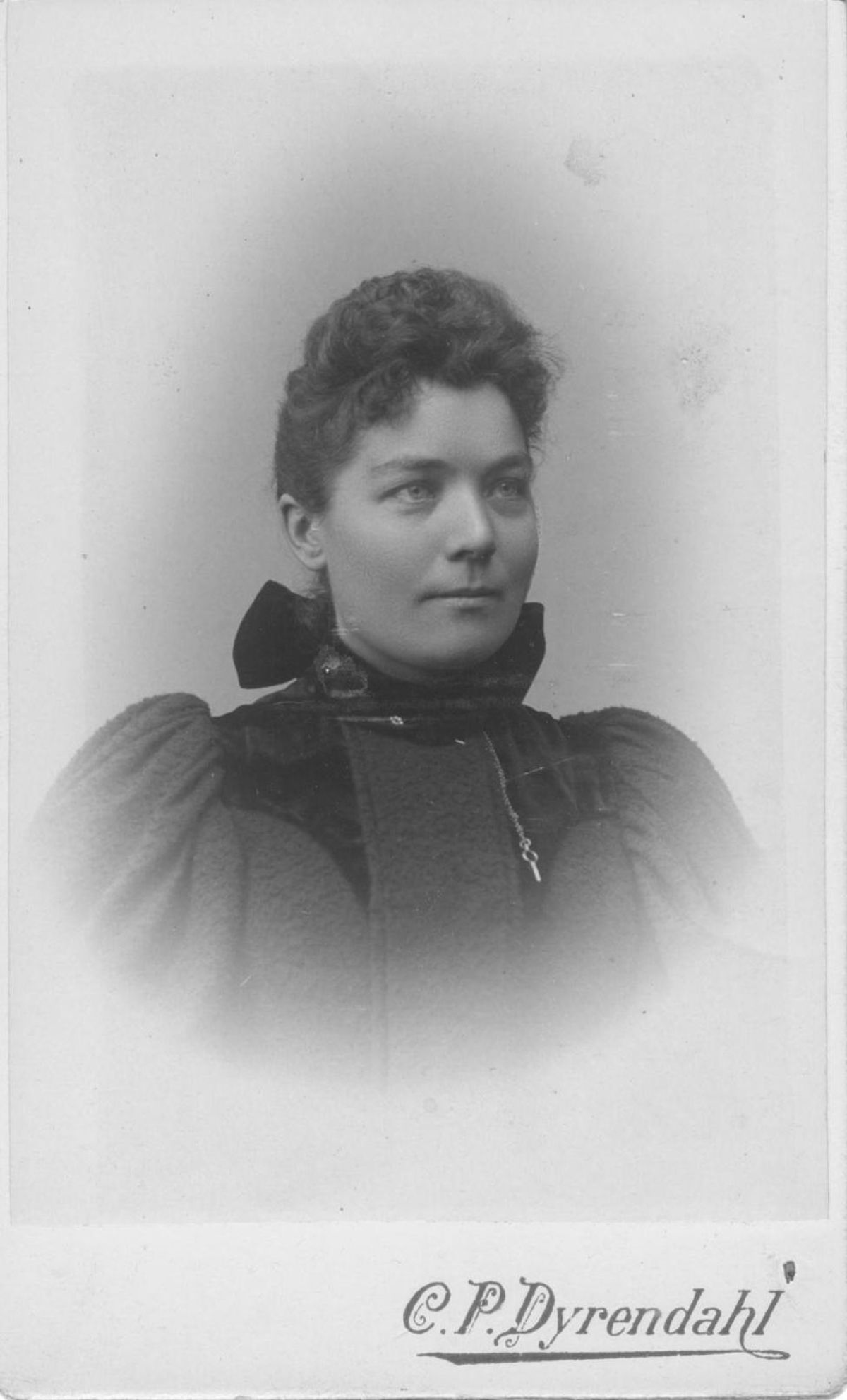 Photograph of the Finnish master builder Hilda Hongell (1867–1952).